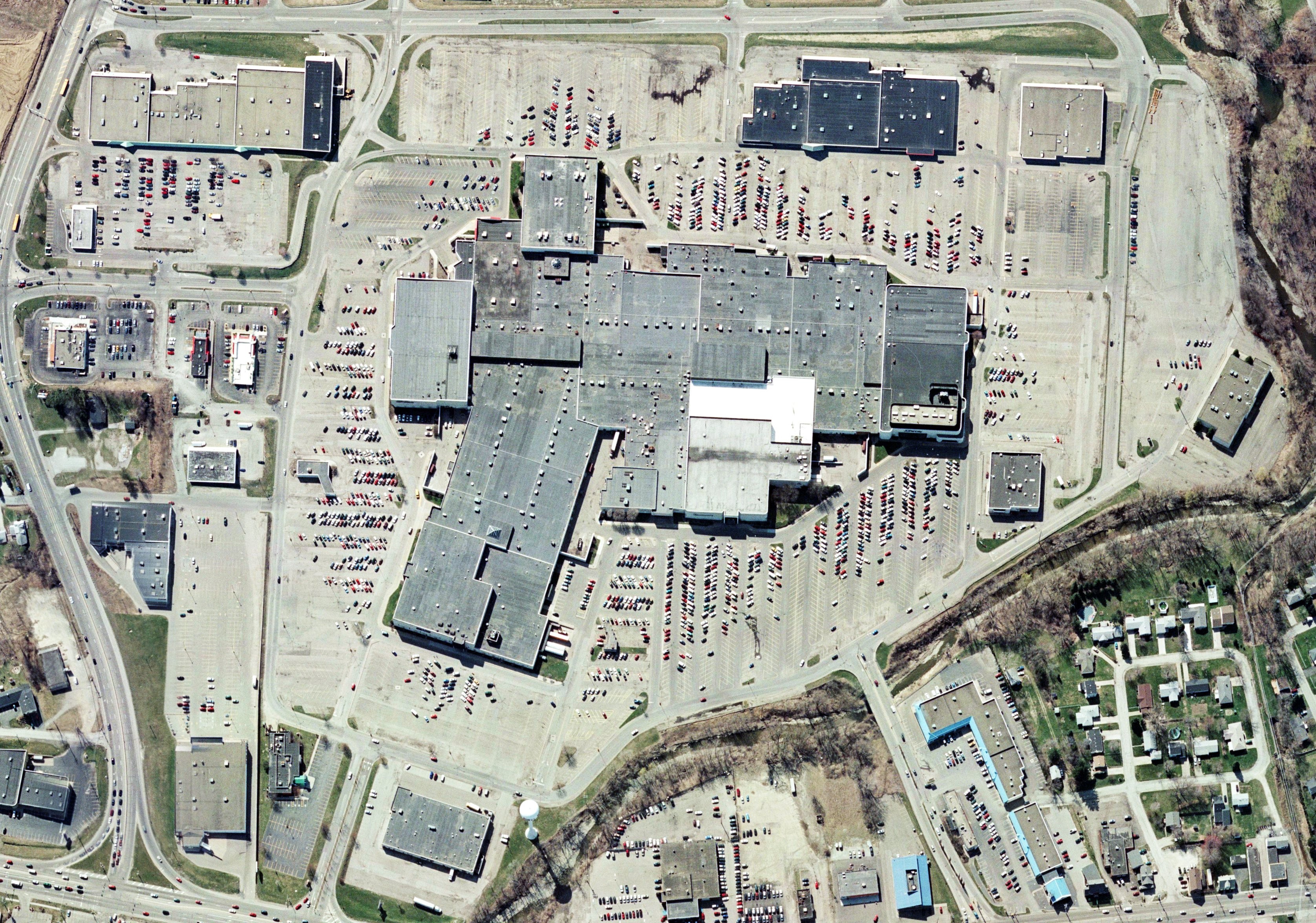 Orthoimage of the Millcreek Mall in Millcreek Township, Erie County, Pennsylvania showing the mall's unusual gun shape.